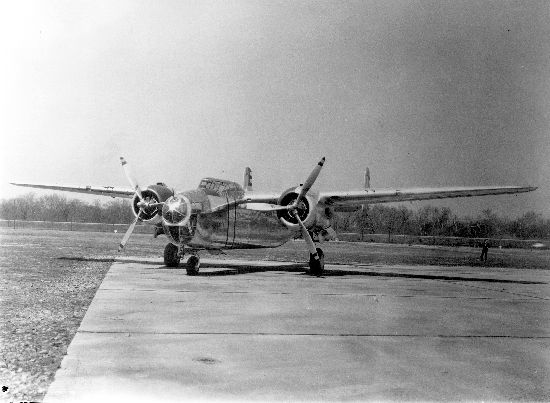 North American NA-40